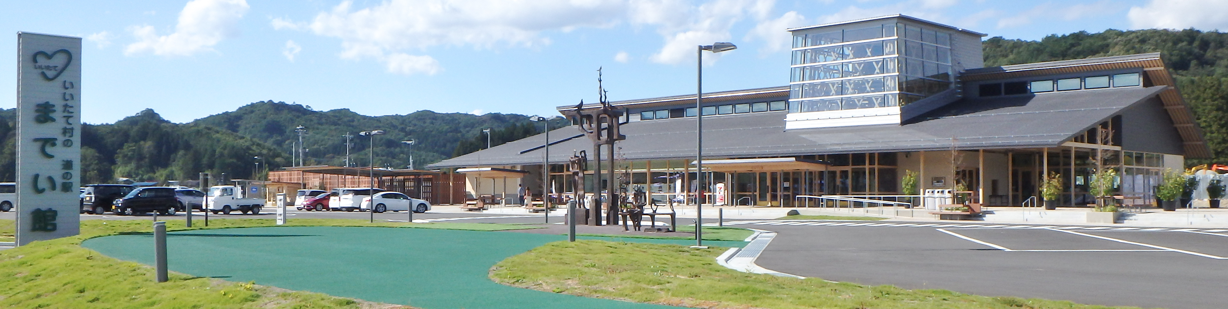 Roadside station Madei hall,Fukushima prefecture,Japan